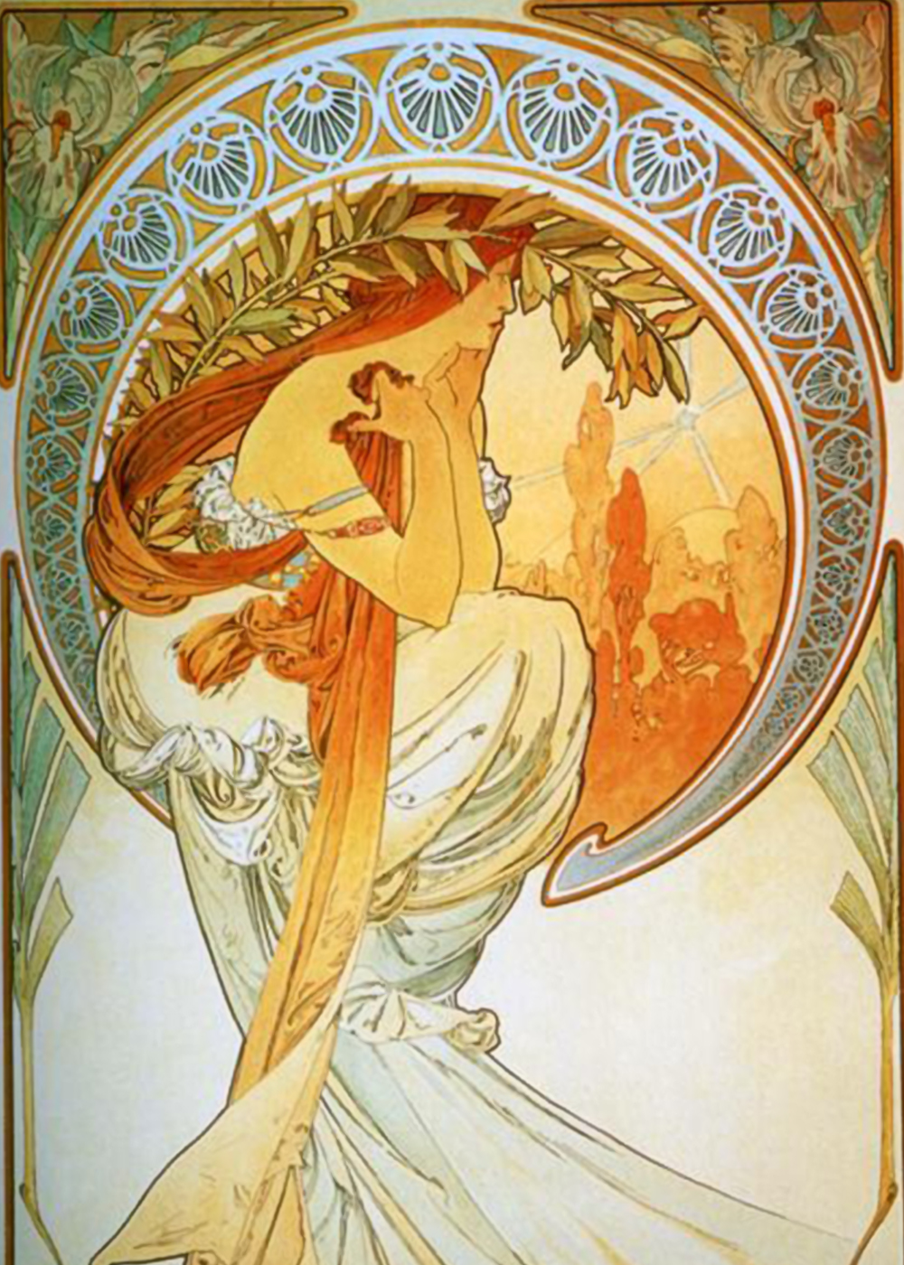 Alphonse Mucha - Poetry (allegory).